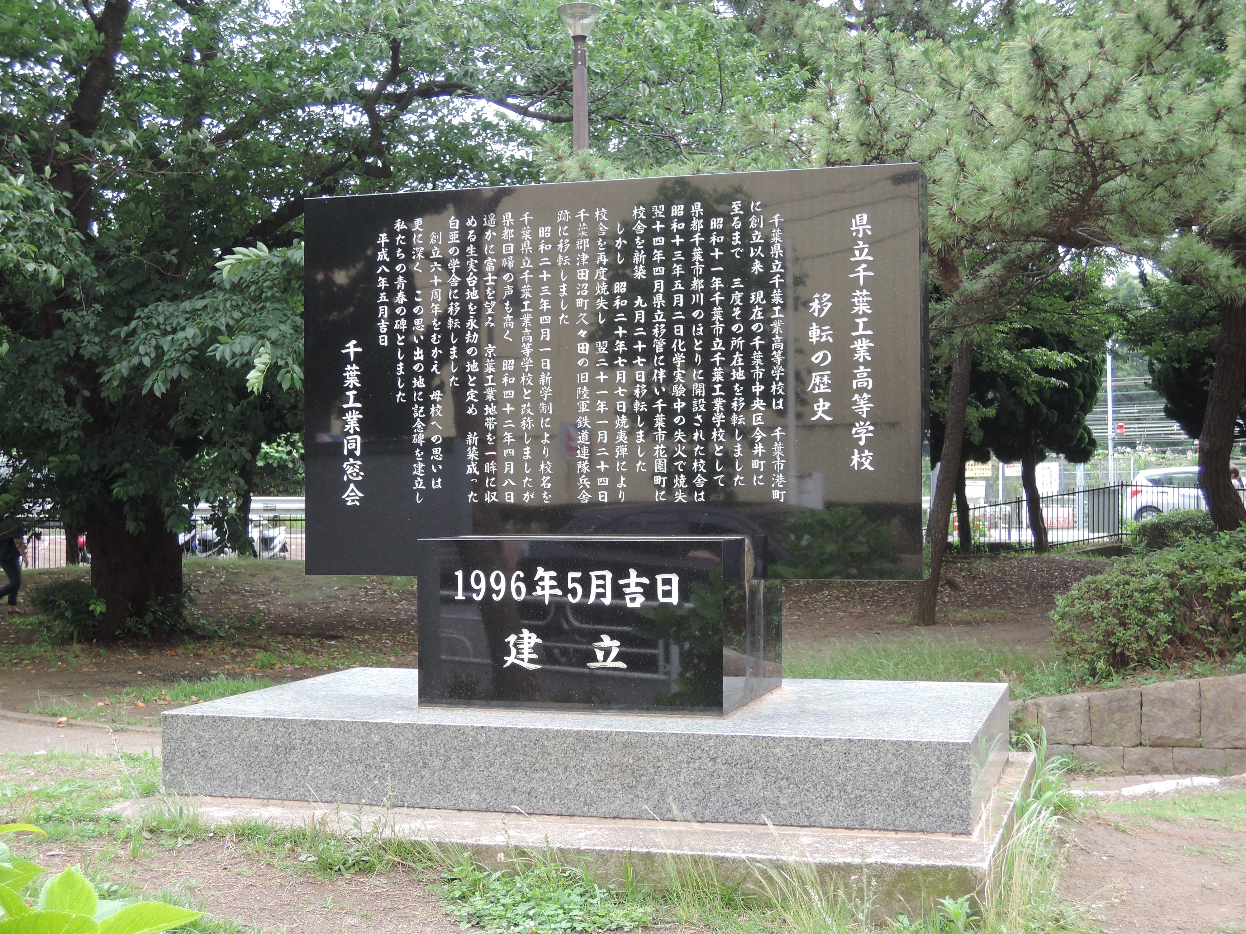 The Monument of Chiba Technical High School Old Site (Narashino, Chiba, Japan)